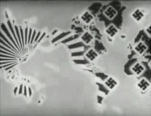 How the Axis Powers aimed to carve up the world - from the documentary Prelude to War.